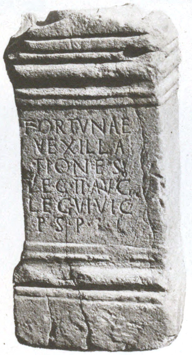 Altar to Fortuna from Castlecary. CIL VII 1093 = RIB I, 2146: Fortunae / vexilla/tiones / leg(ionis) II Aug(ustae) / leg(ionis) VI Vic(tricis) / P(iae) F(idelis) p(osuerunt) l(ibentes) l(aetae)